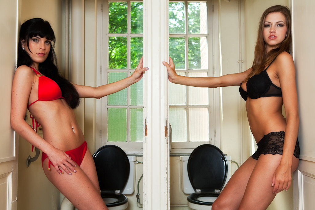 Jana Miartusova & Eufrat